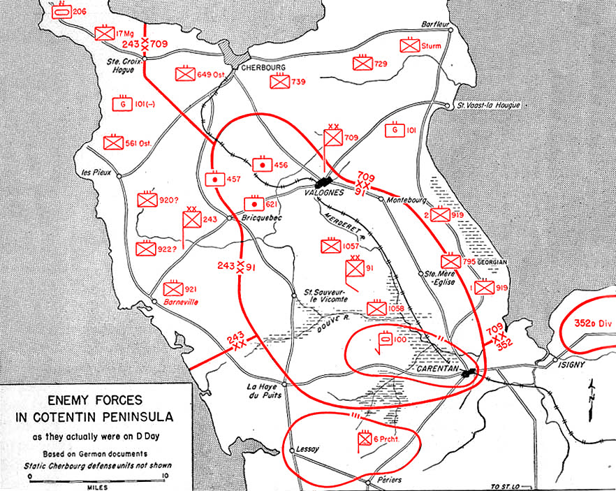 Map of German positions on Cotentin Peninsula, D-Day, 6 June 1944